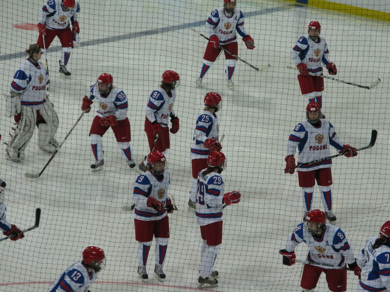 The Russian women's national ice hockey team warms up before the game against China during the 2010 Winter Olympics.